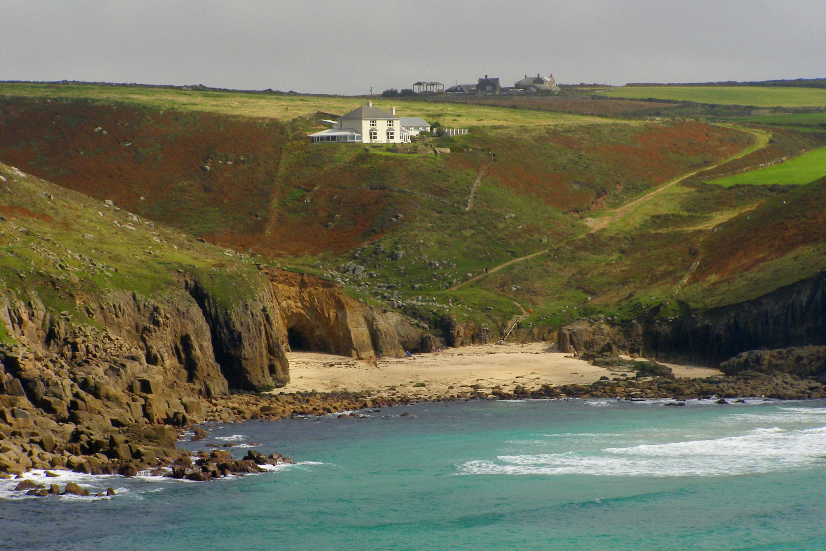 View from Carn Boel towards Nanjizal cove in Mill Bay, south of Lands End, Cornwall. The white house on the cliffs above the beach is also called Nanjizal.